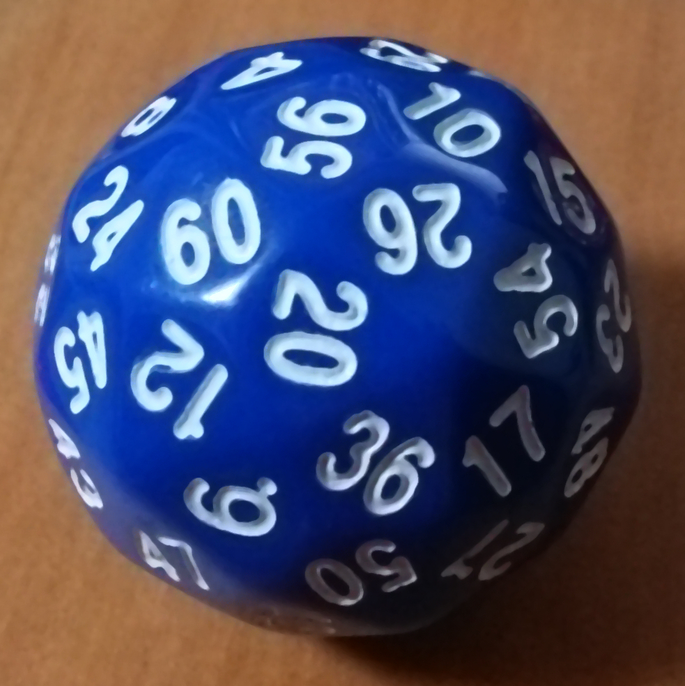 60 sided Dice